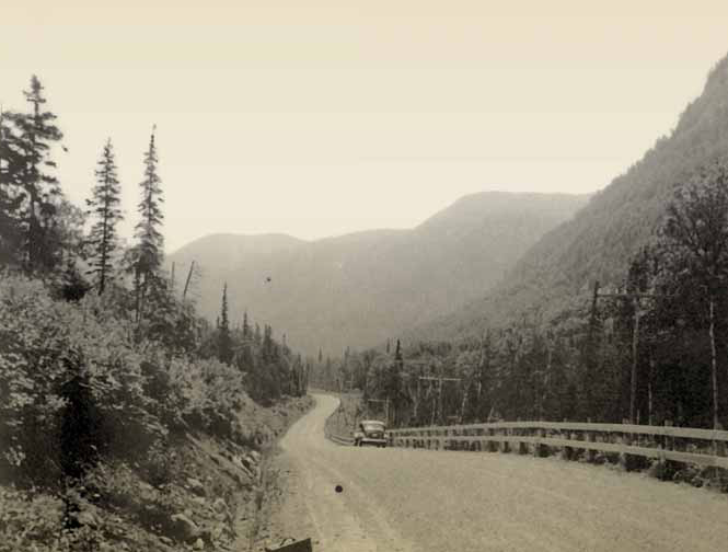 Route 54, parc des Laurentides, Quebec